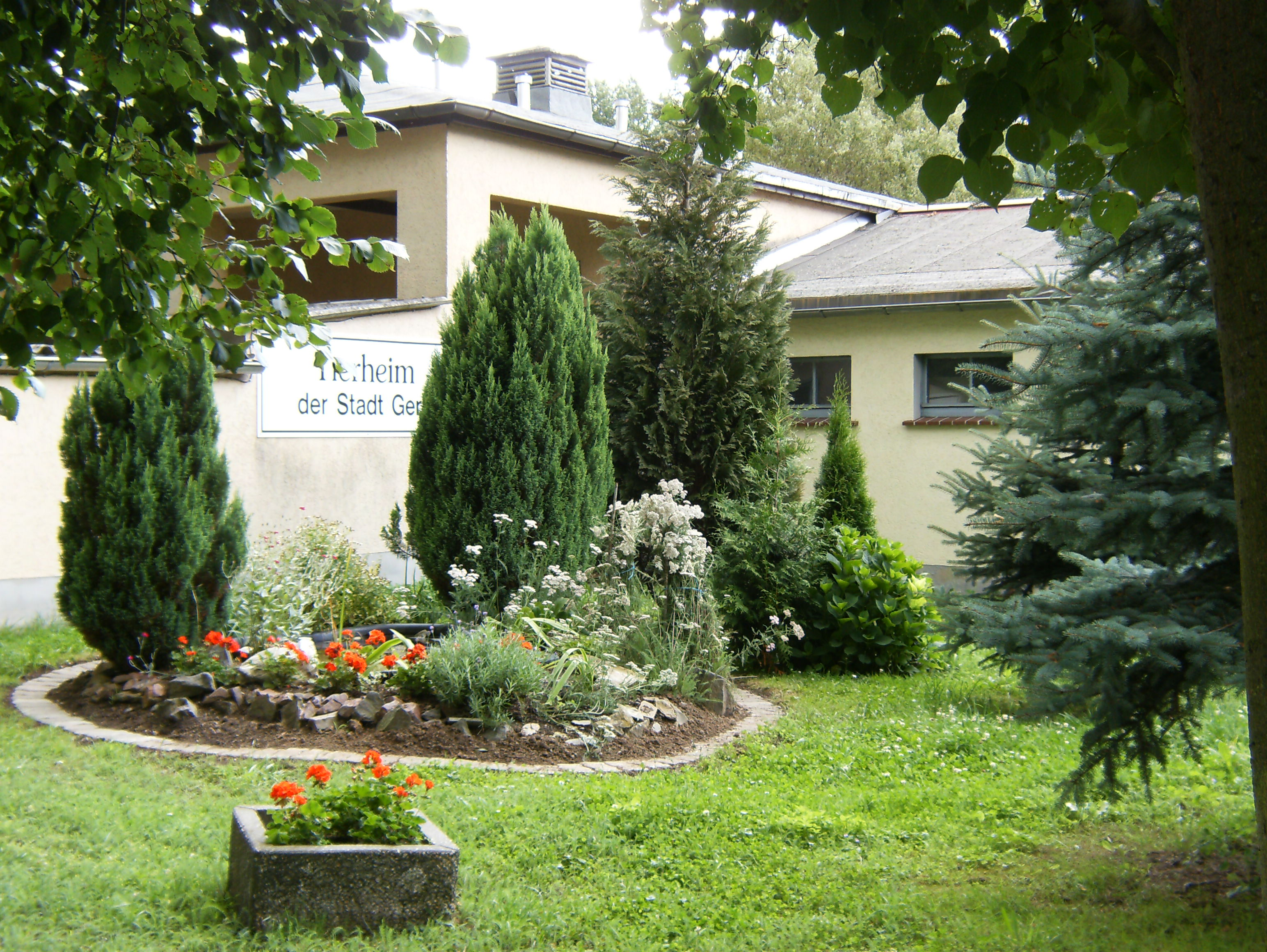 Animals home.